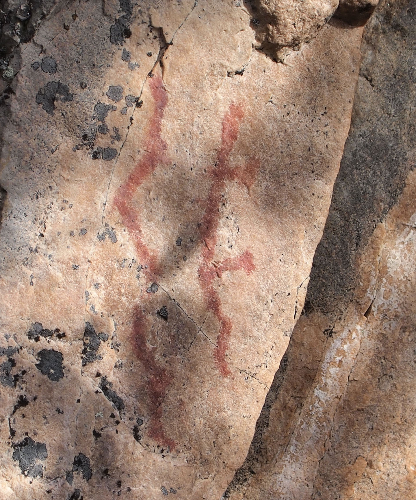 Rock painting in Saraakallio, Laukaa.